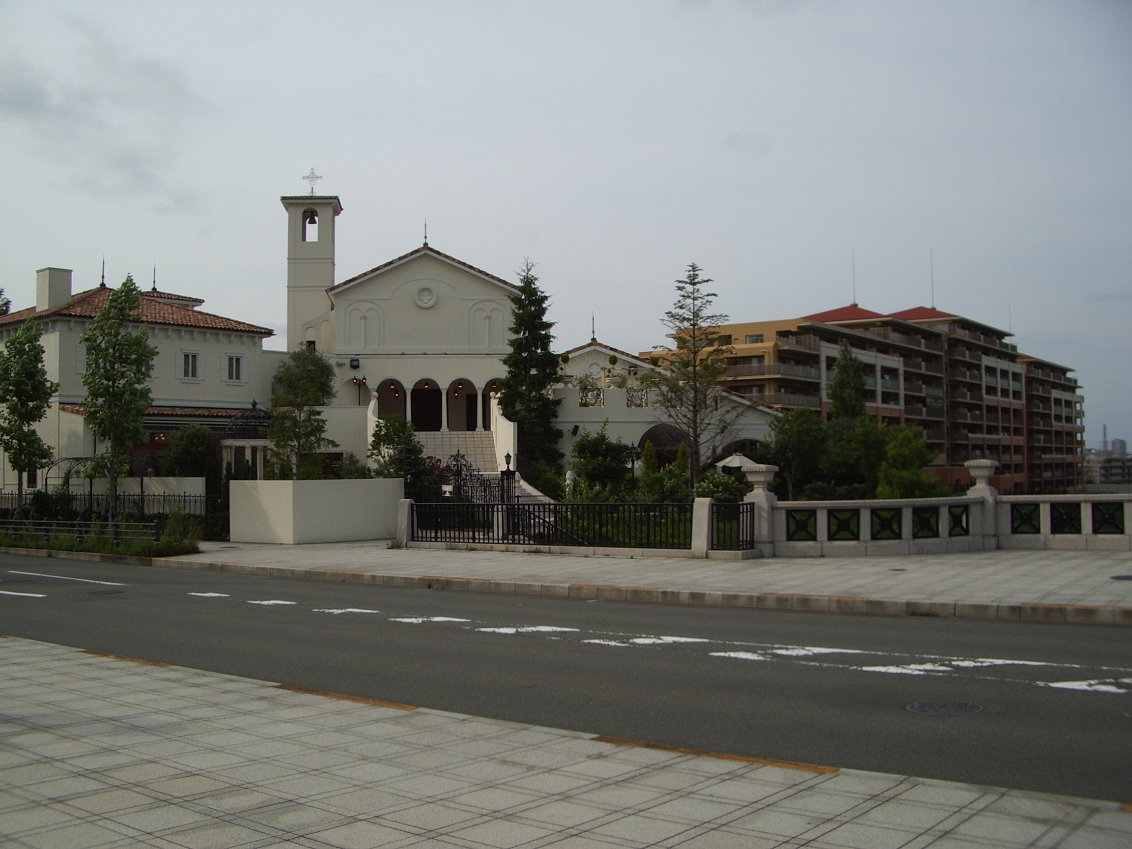 Fake Christians-style chapel for wedding ceremony, Hachioji, Tokyo